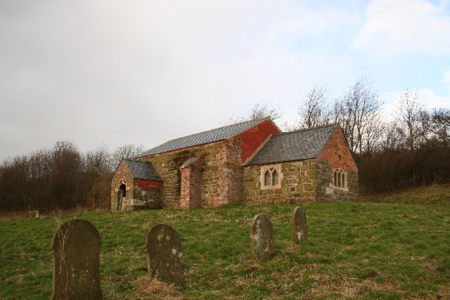 St.John the Baptist's church, Sutterby, Lincs. Redundant for about 30 years, St.John's is watertight and secure, cared for by the Friends of Friendless Churches who have left a small window on the west side open for barn owls. There's a bricked up Norman north doorway and a piece of flowing tracery re-set above the south doorway.